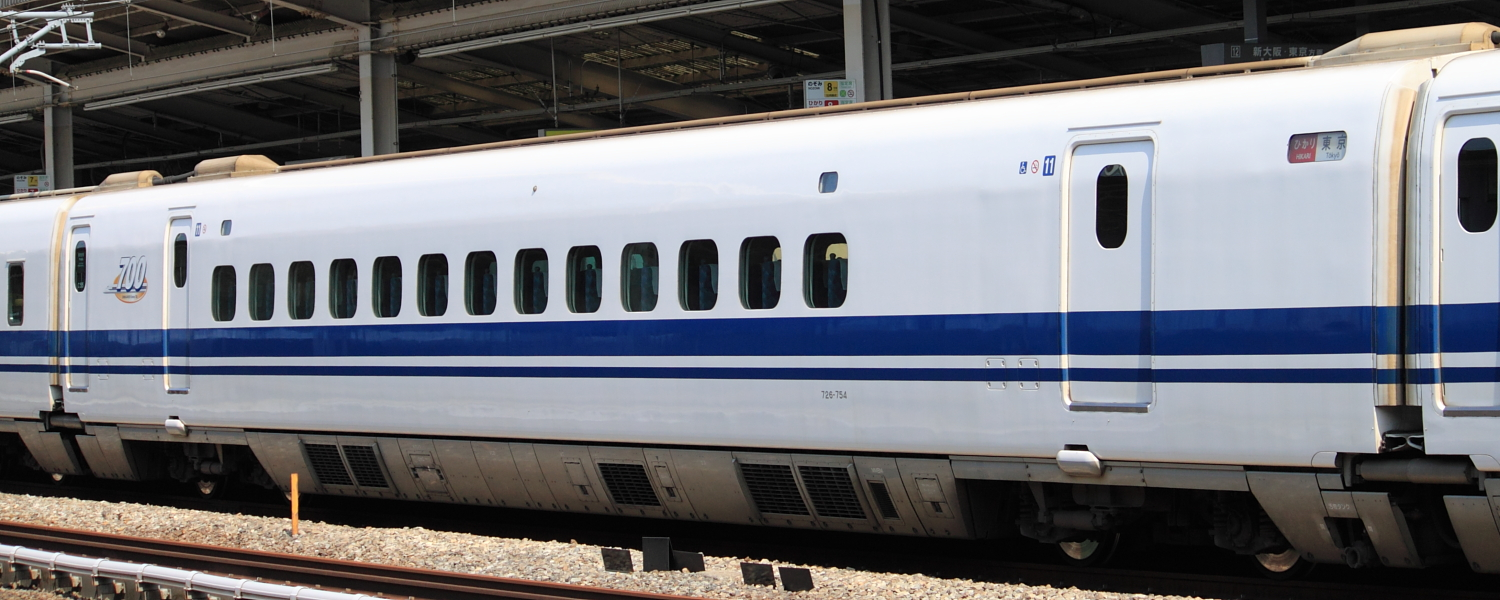 Shinkansen Series 700(726-754) in Nishi-Akashi Station